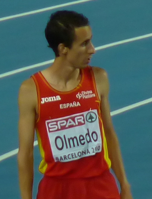 Spanish athlete, Manuel Olmedo